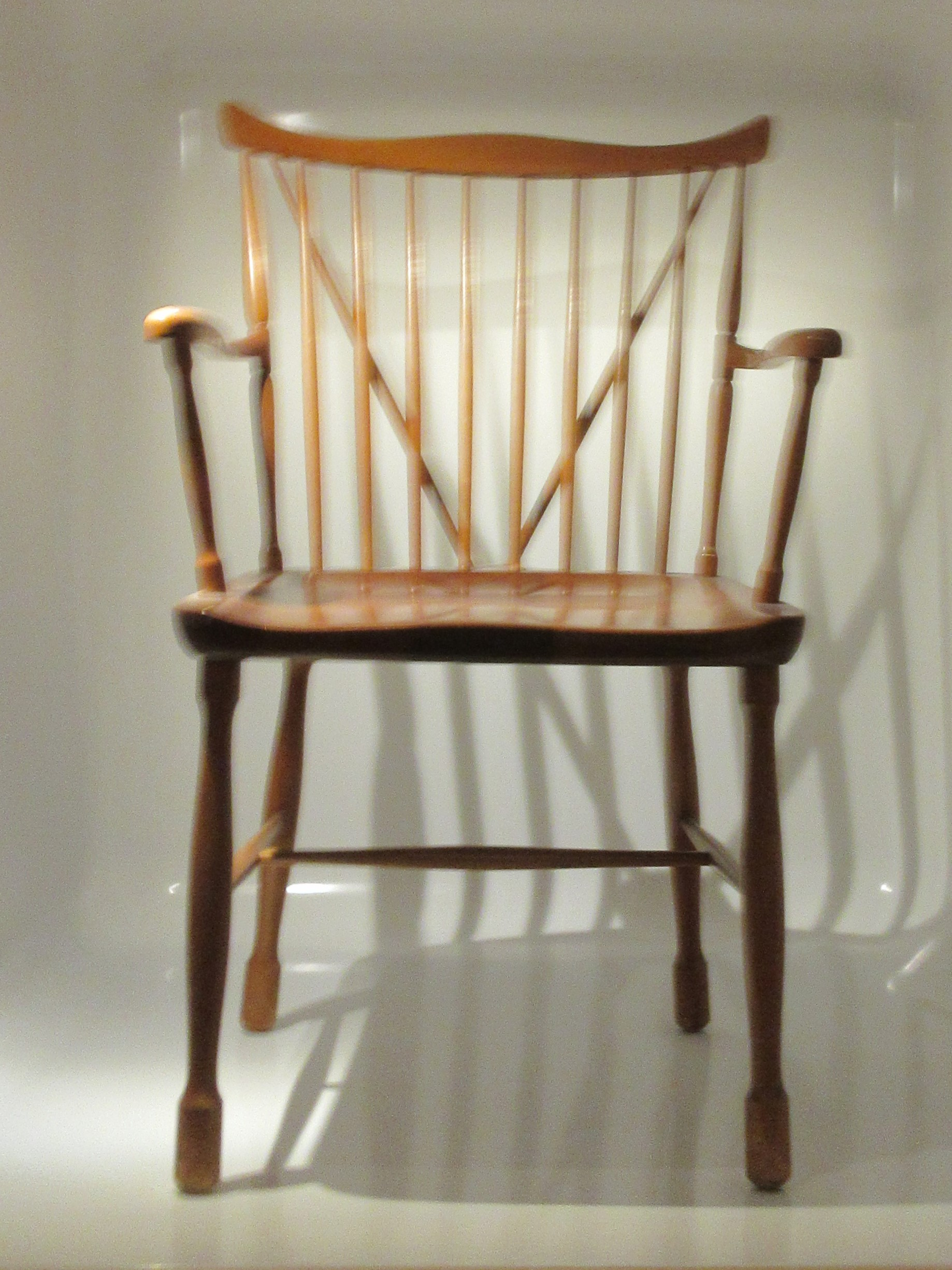 Windsor chair designed by Ole Wanscher in 1942.